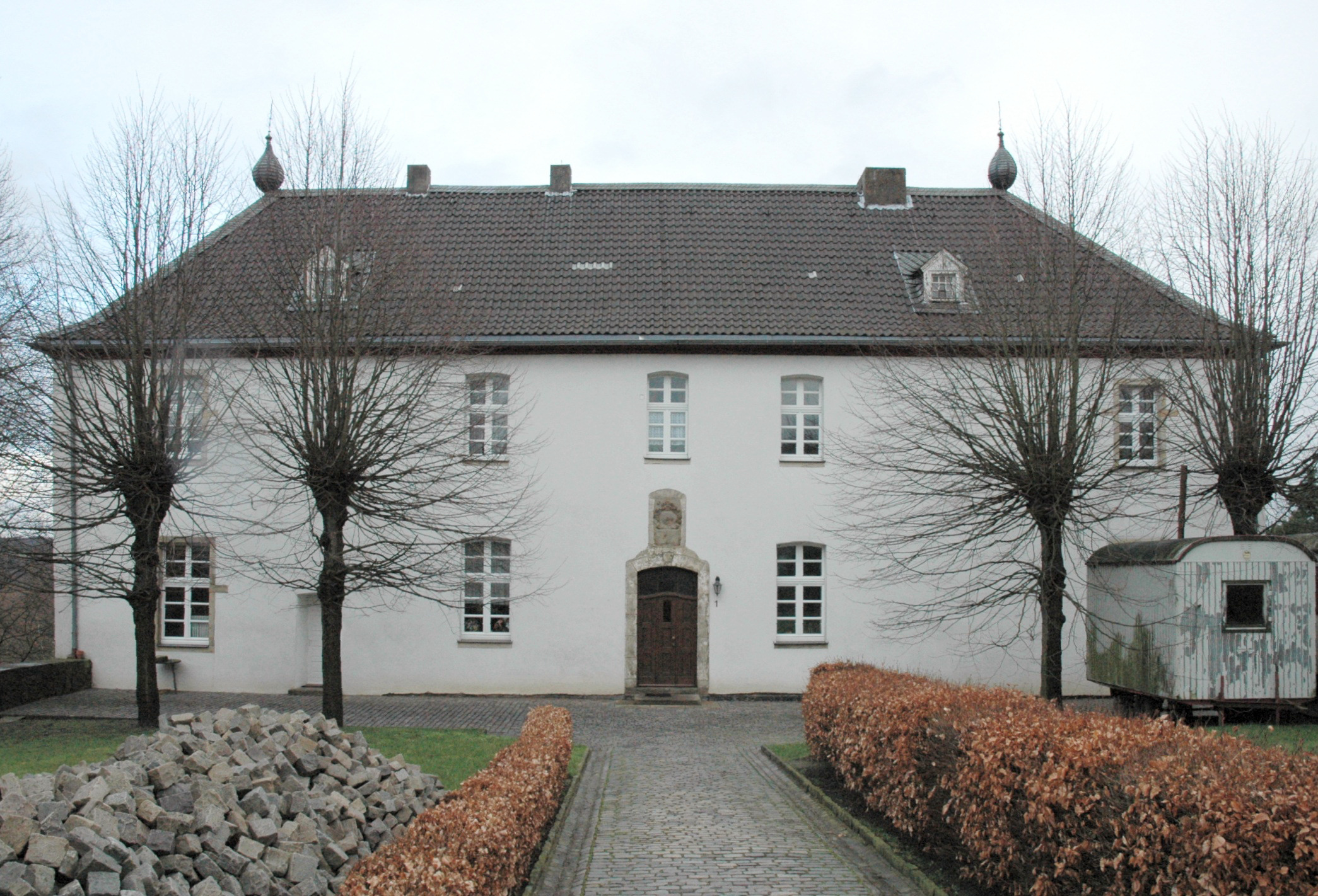 Haus Heisingen, main building